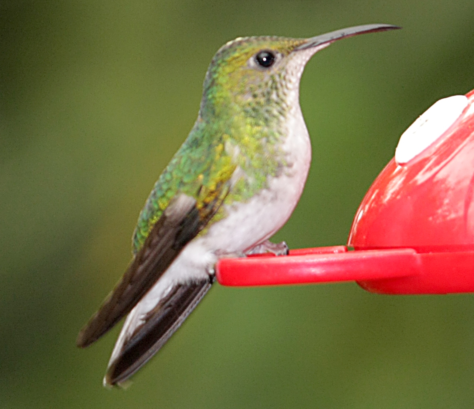 Female coppery-headed emerald -- Elvira cupreiceps --Monteverde, Costa Rica